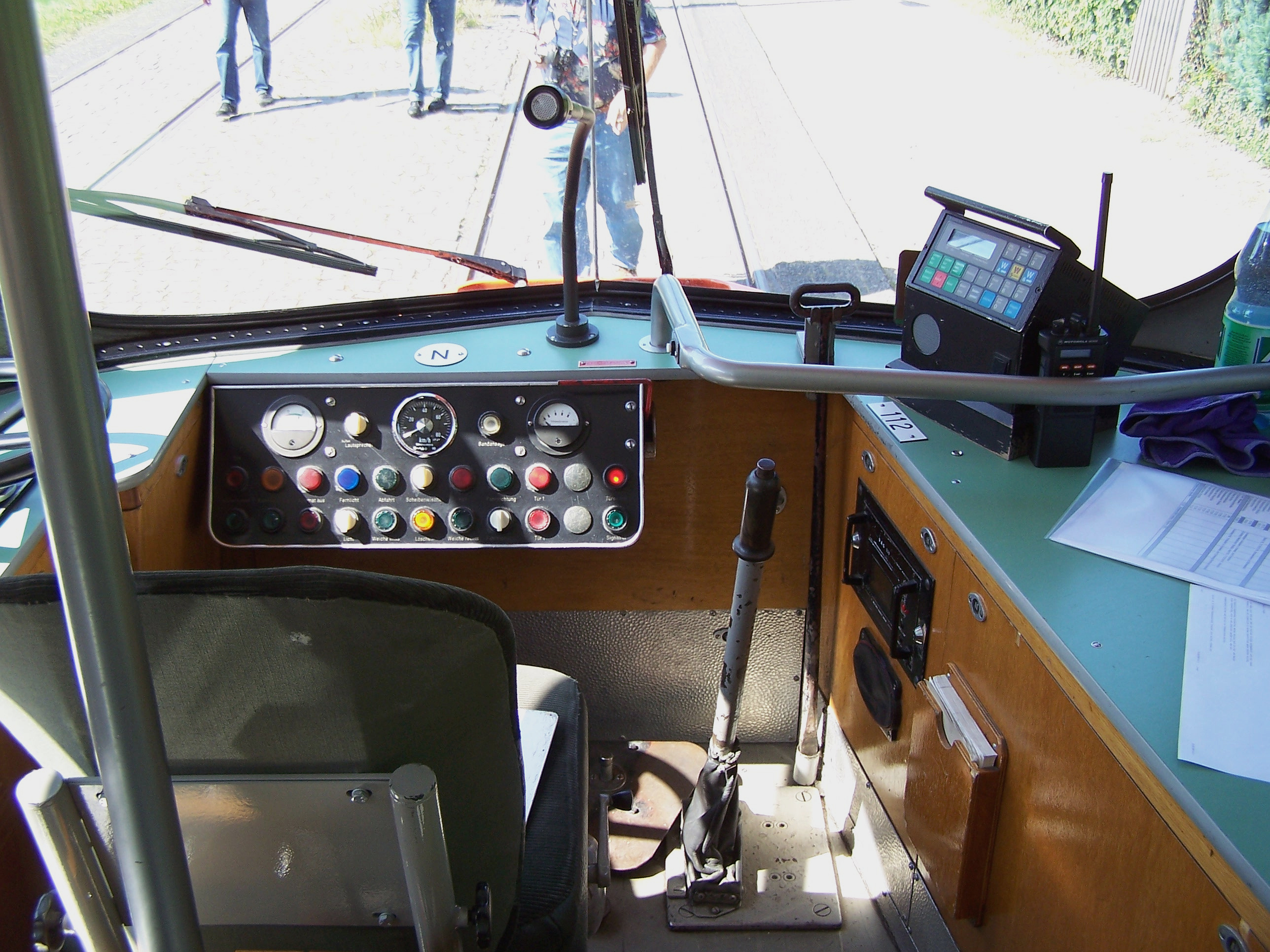 Tramway at Frankfurt am Main: Driver's cab of VGF type N railcar 112 (812) in Frankfurt-Sachsenhausen, August 1st, 2009